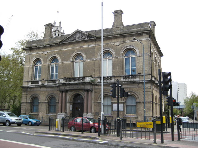 Limehouse Town Hall Limehouse probably got its name from the lime kilns established in the area around the fourteenth century. Chalk from Kent was brought up the River Thames and burnt in the kilns to make lime mortar and render used in the construction of buildings in London. The Town Hall seen here was designed by the Harston architectural practice in an Italianate style and the foundation stone was laid in 1879. The building was completed in 1881 and it served as the Town Hall until the major local government reforms and the creation of Tower Hamlets Council in 1965. Since 1965 the building has had several functions including a period as the National Museum of Labour History. However it is currently in a bad state of disrepair and has been on English Heritage's Buildings at Risk Register since 2003. Funds from English Heritage have however been allocated for repair work to the Grade II listed structure.